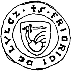 Seal of Fridrich, gentryman from Luleč (now Czech Republic), 1349